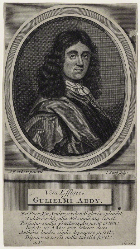 Portrait of William Addy, English writer-master.